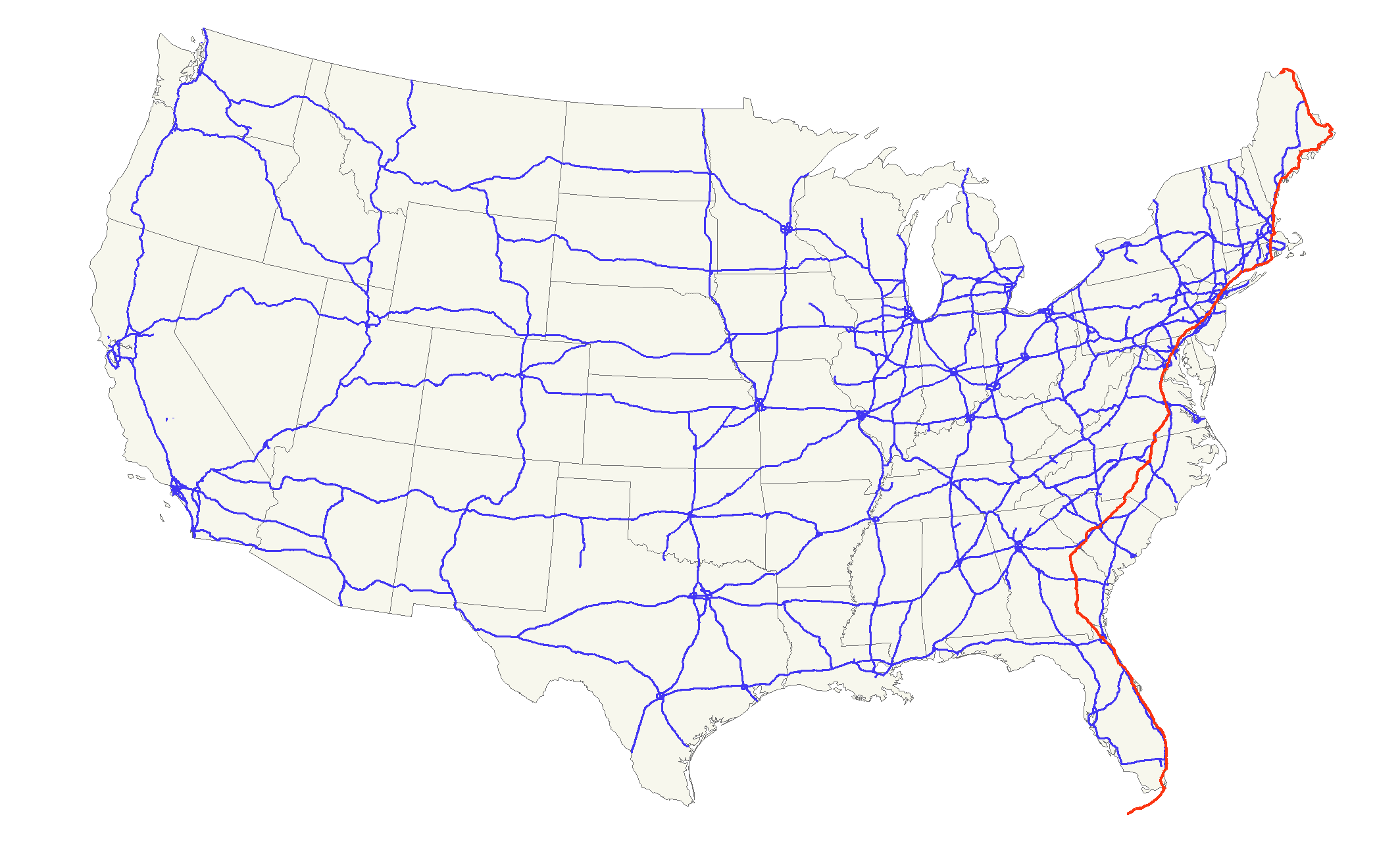 Map of US Route 1